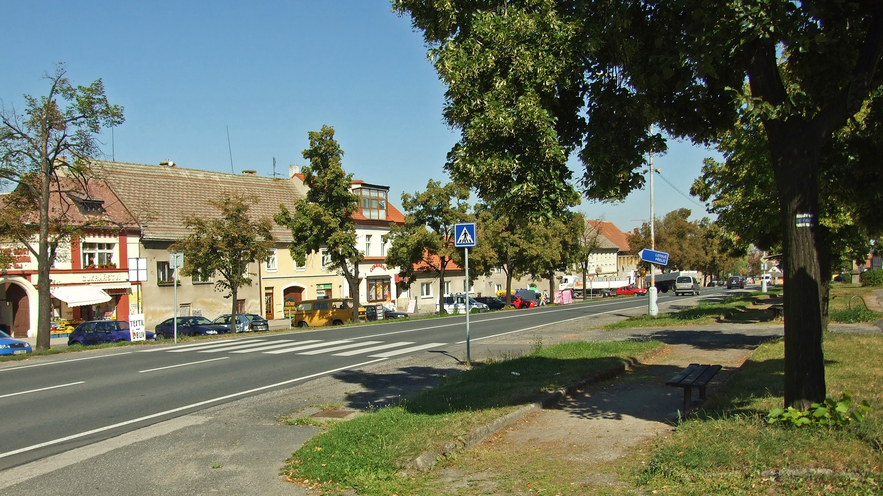 Smečno town in Kladno district, Central Bohemian region, CZ This photograph was taken within the scope of the 'Czech Municipalities Photographs' grant.